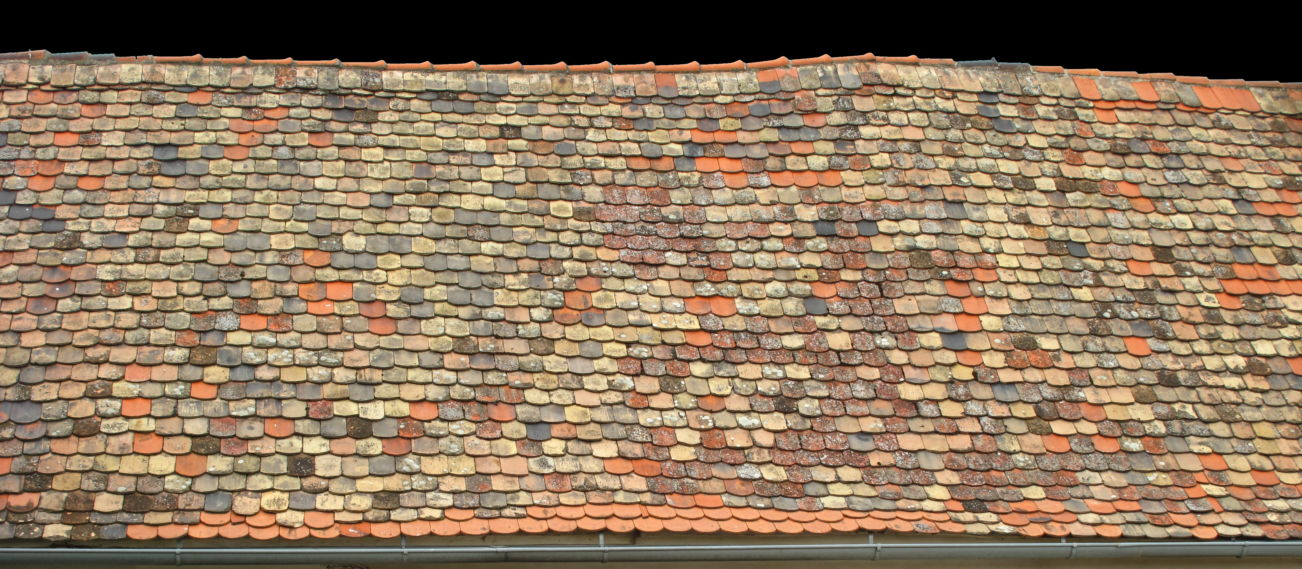 Roof of the house in Siřejovice village, Litoměřice District, Czech Republic.